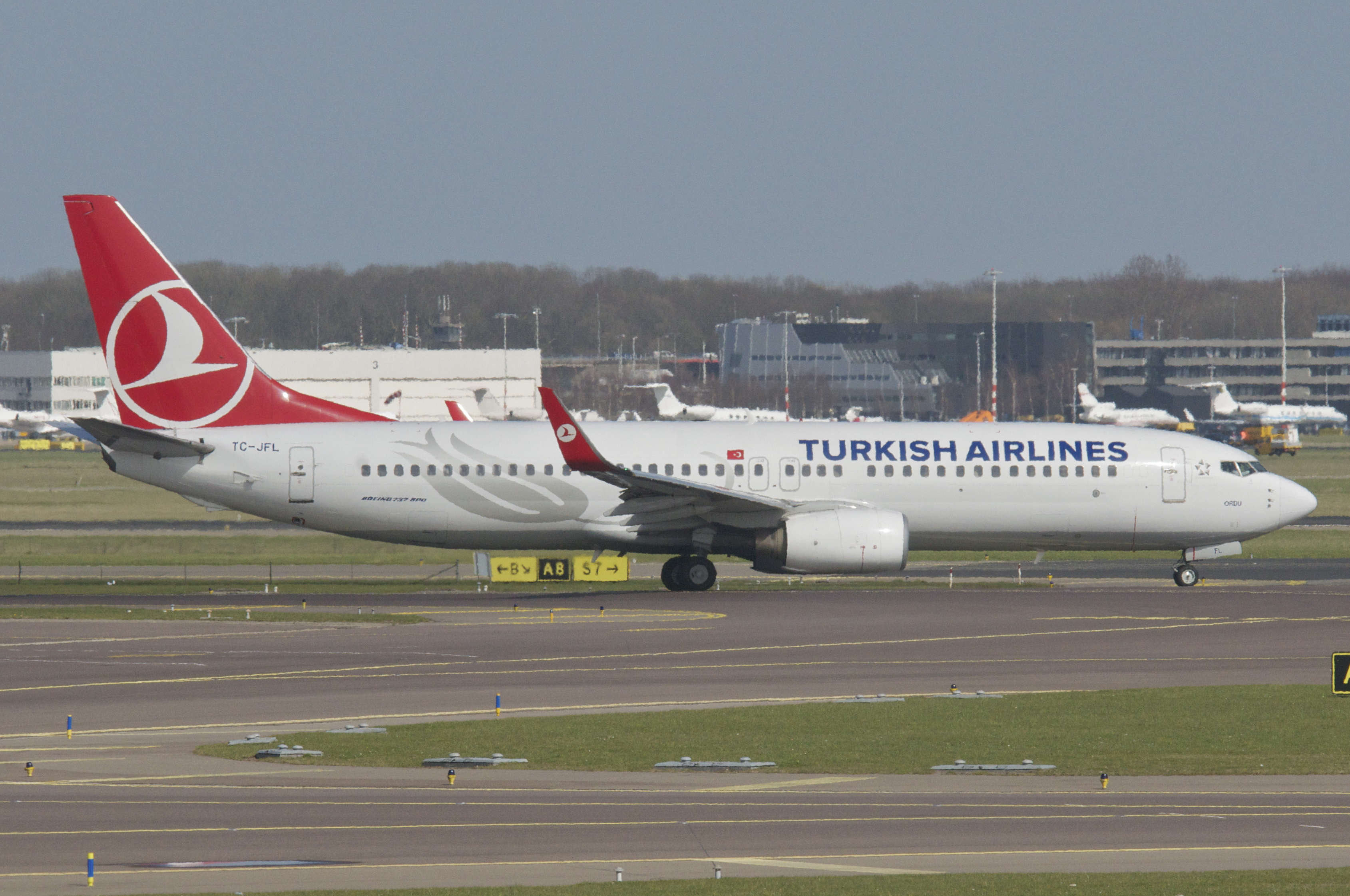 Turkish Airlines Boeing 737-800; TC-JFL@AMS;15.04.2013/705gp